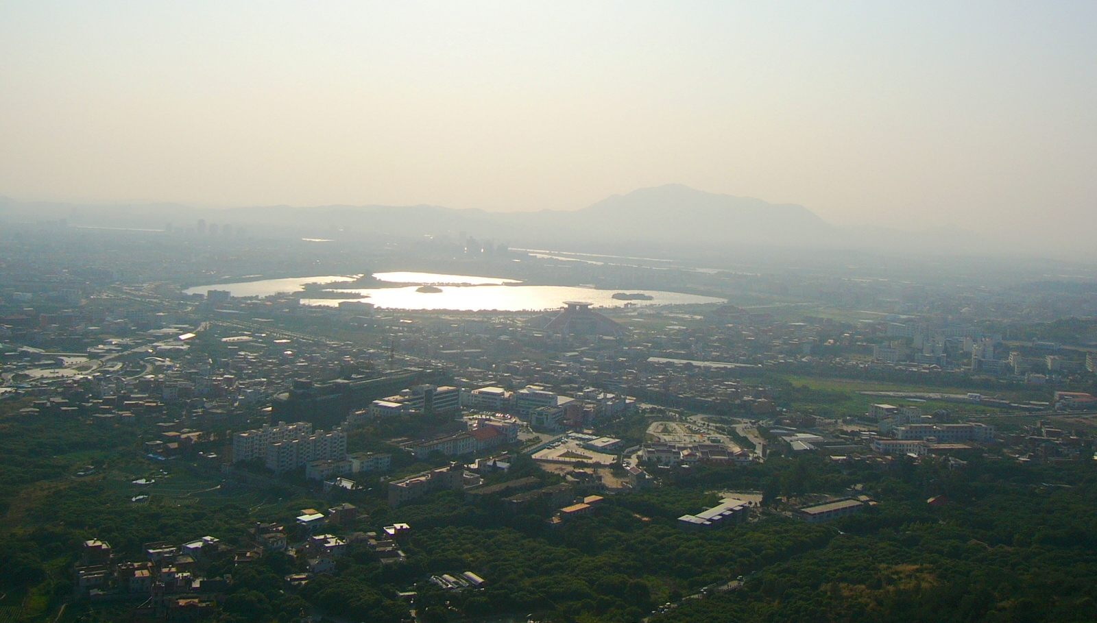 Quanzhou City